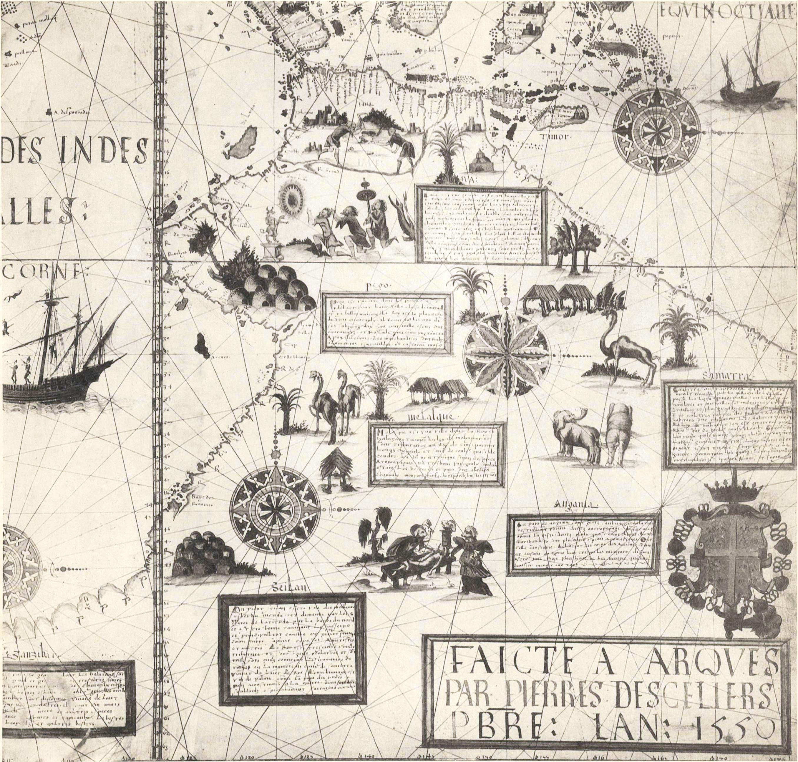 This is a detail from a 1550 world map by Pierre Desceliers, from the location where Australia would be, and purportedly showing Australian features. It is one of the Dieppe maps, which are commonly put forward as evidence for the theory that the Portuguese discovered Australia in the 16th century.